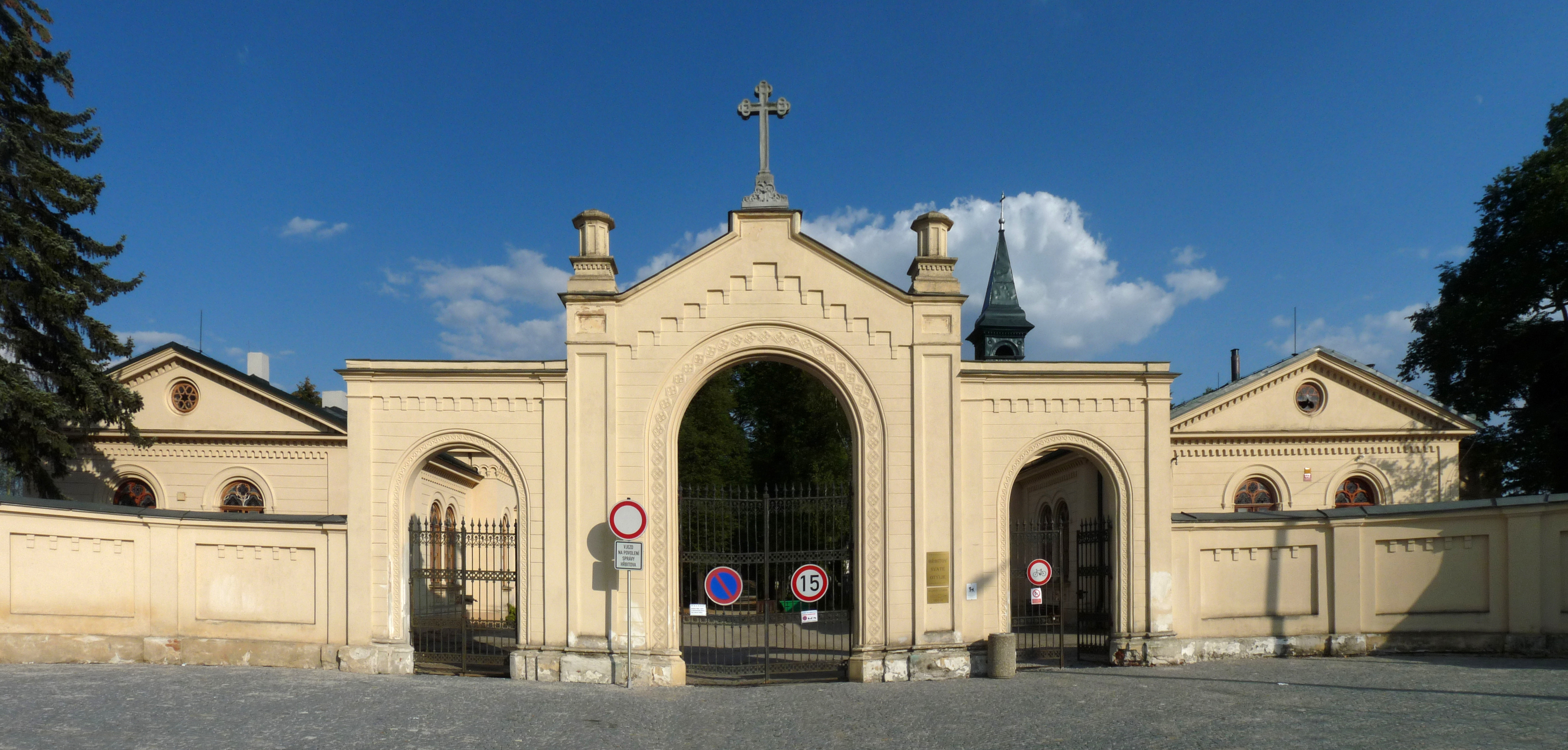 Main entrance to the municipal cemetery in Pražská Street, České Budějovice, South Bohemian Region, Czech Republic